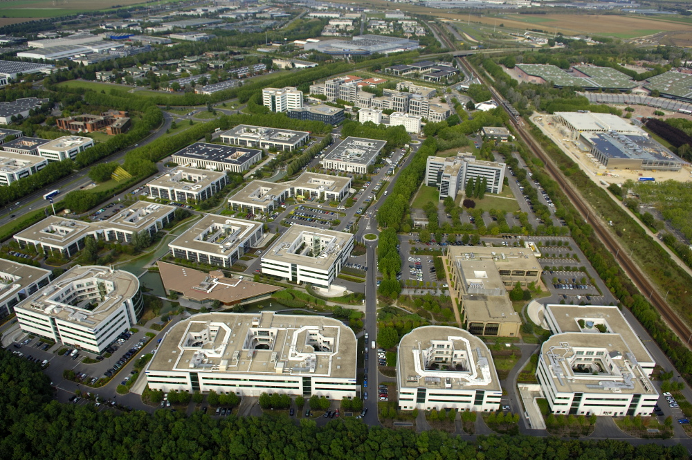 Paris Nord 2 International Business Park